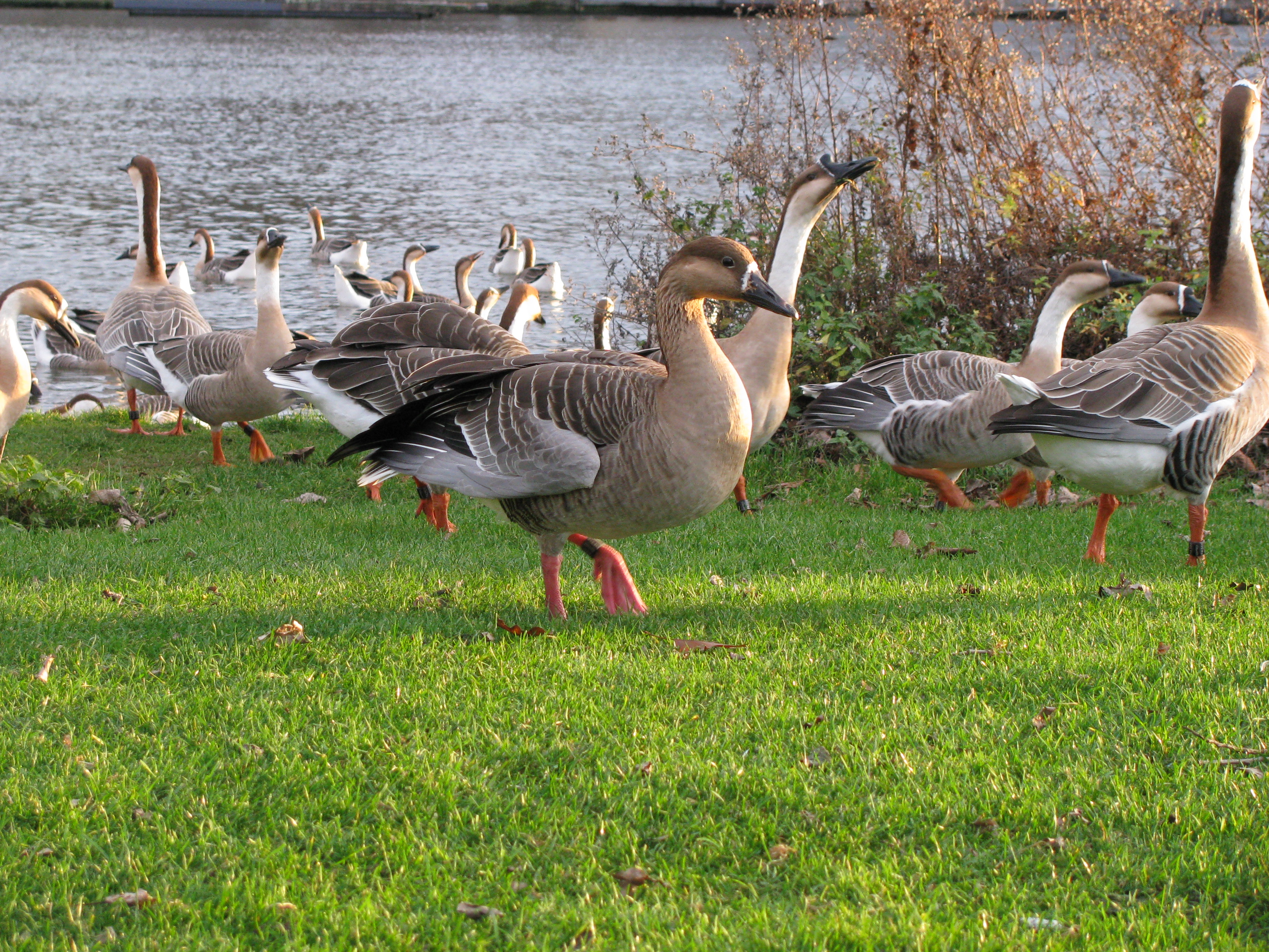 Anser cygnoides on the Neckarwiese in Heidelberg, Germany